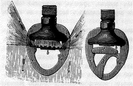 Grinnell sprinkler